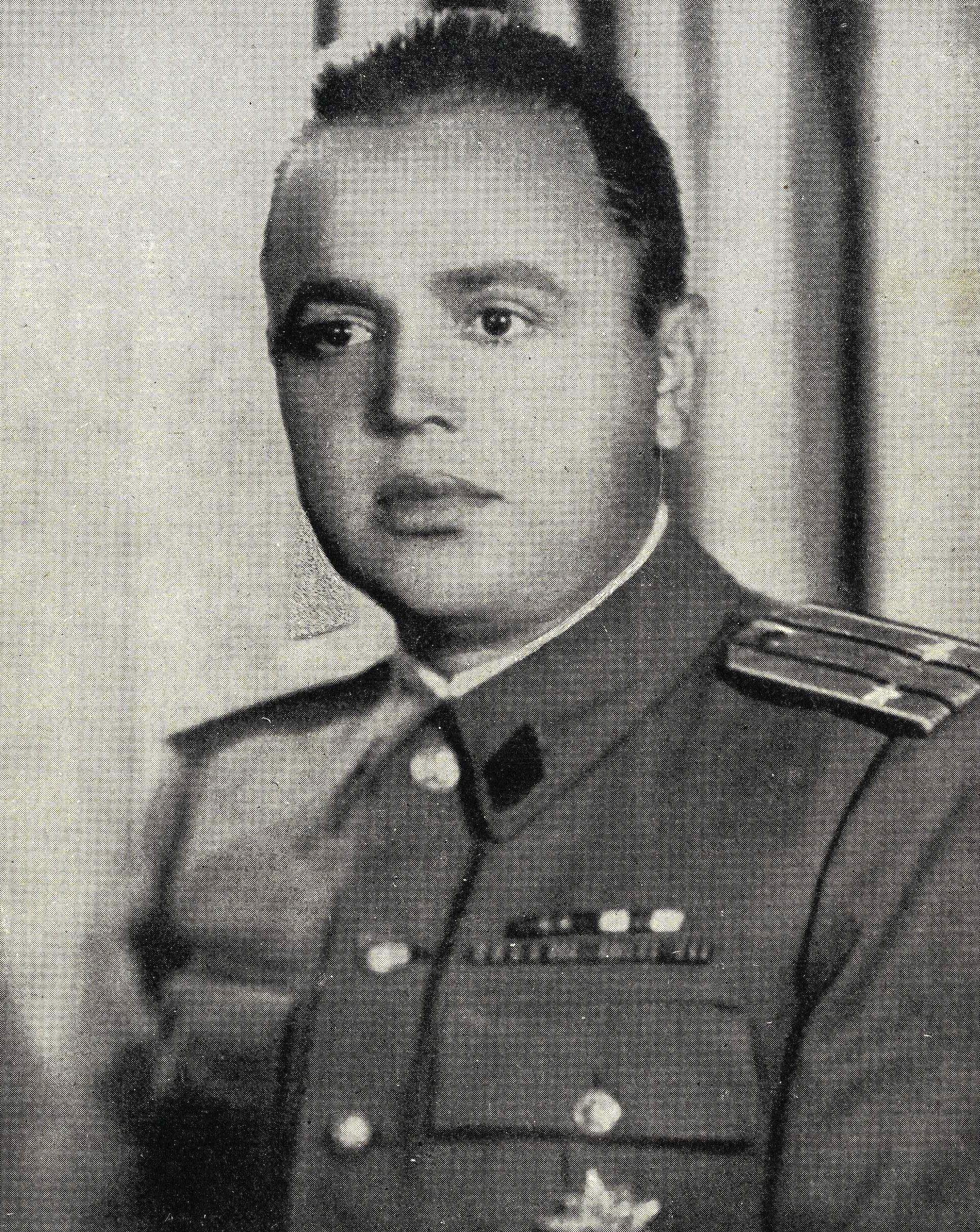 Anton Dežman-Tonček (1920-1977), Slovene general and partisan